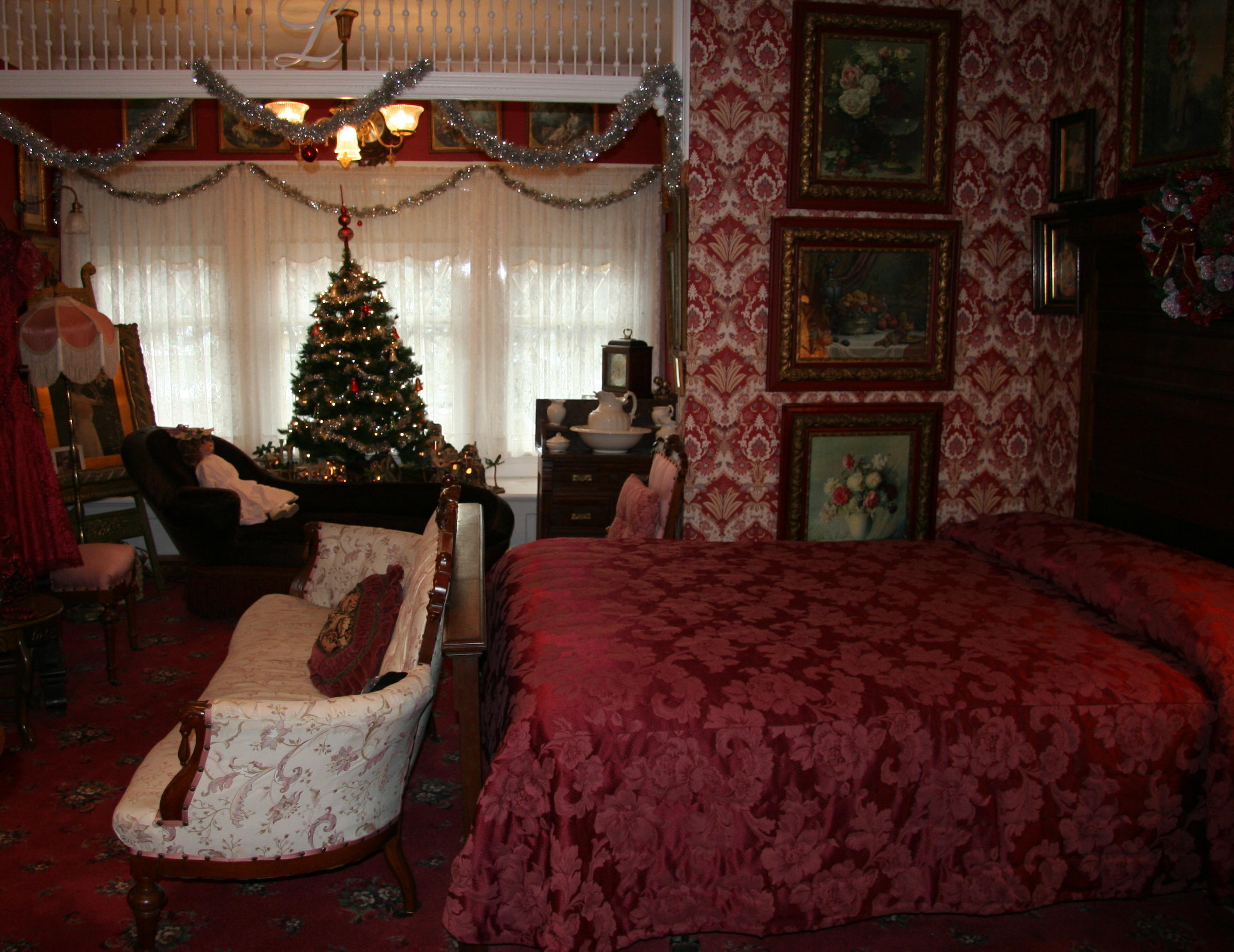 Christmas tree and other decorations in the master bedroom of the Ellen Lovell House, also called Oakenwald Terrace, a bed and breakfast on the National Register of Historic Places in Chatfield, Fillmore County, Minnesota